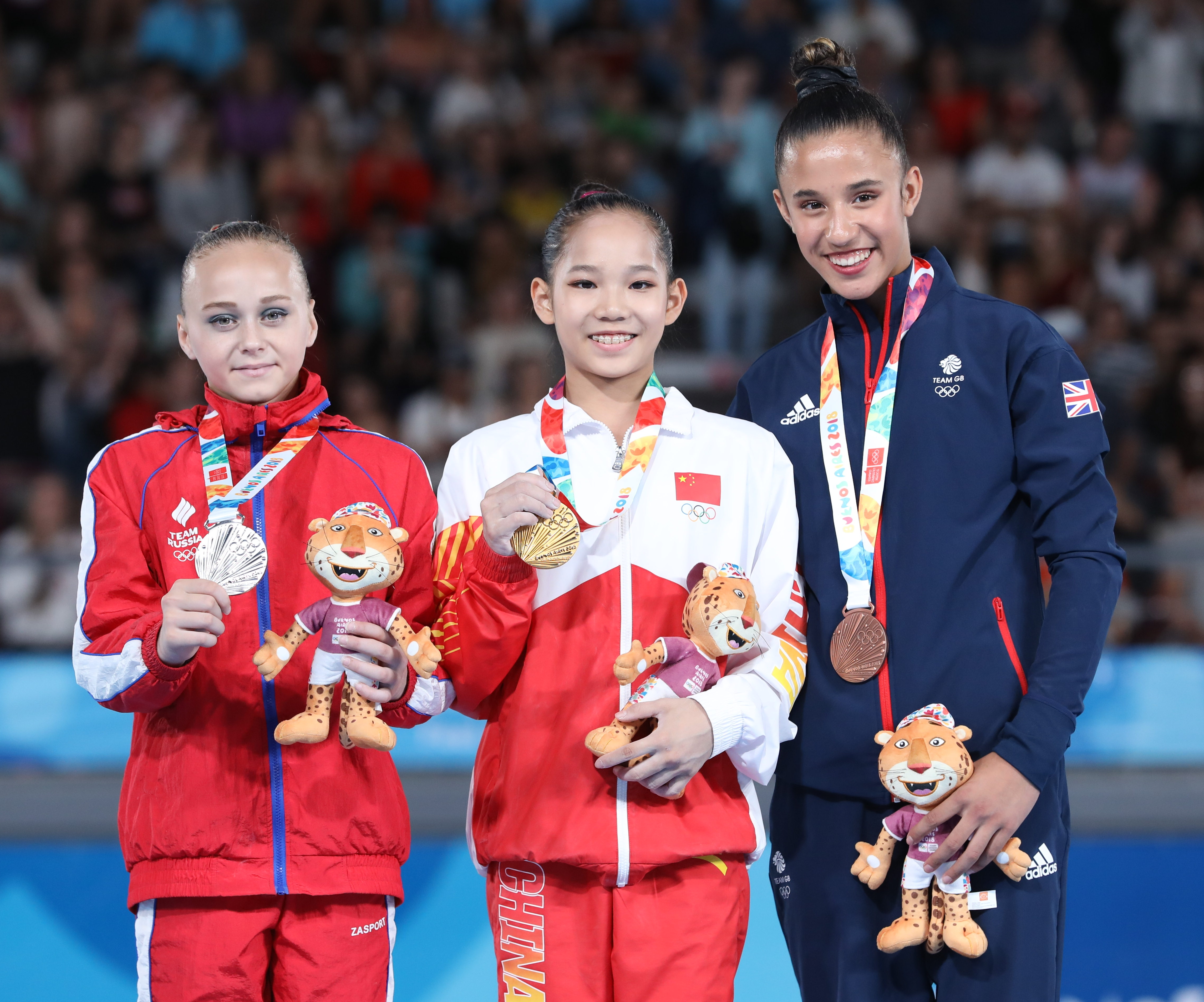 Girls' Artistic Gymnastics, Balance beam: Victory ceremony